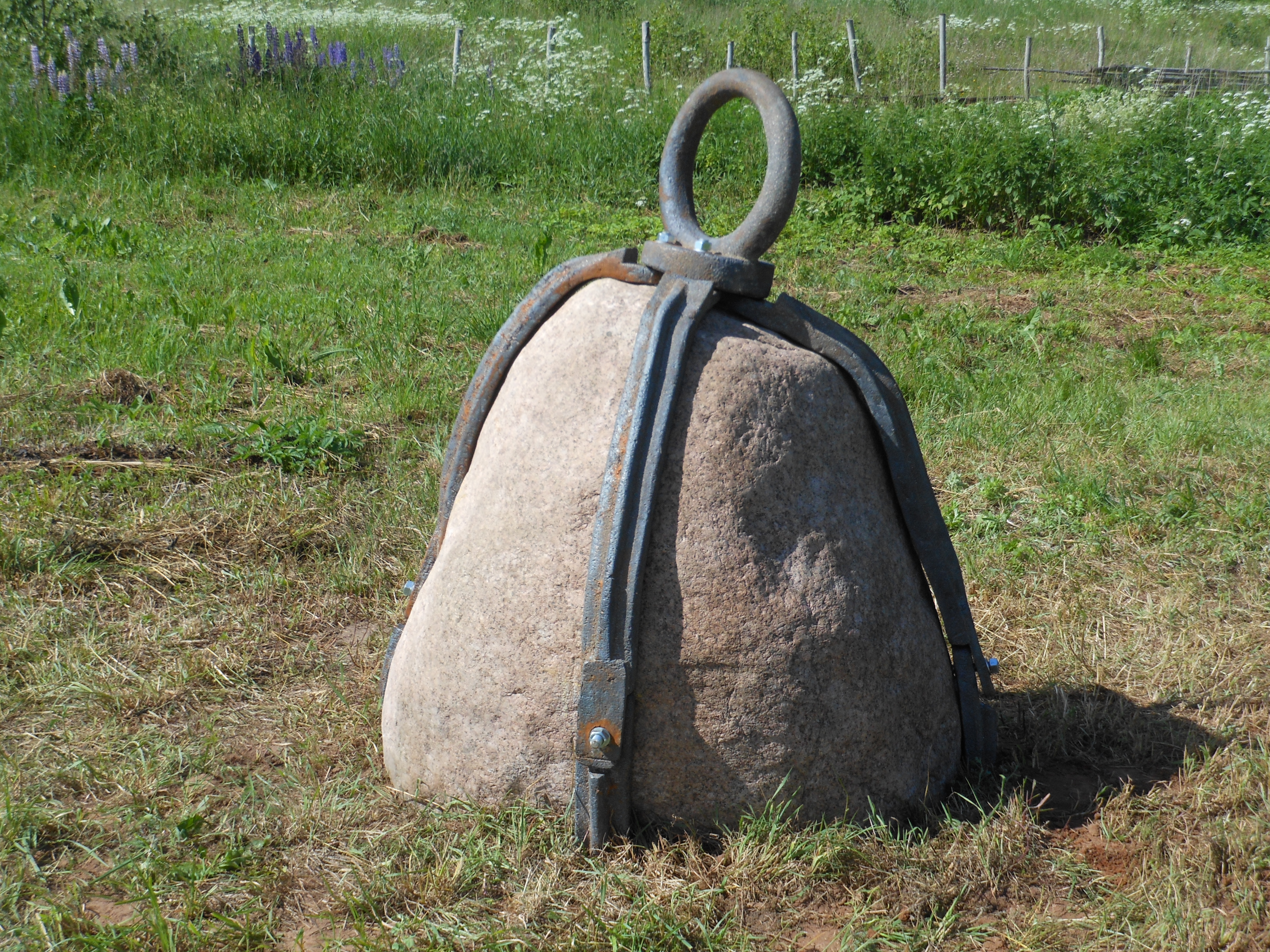 Sekimori Ishi, sculpture by Daniel Postellon, 2014. Granite and cast iron, 155X95X95 centimeters